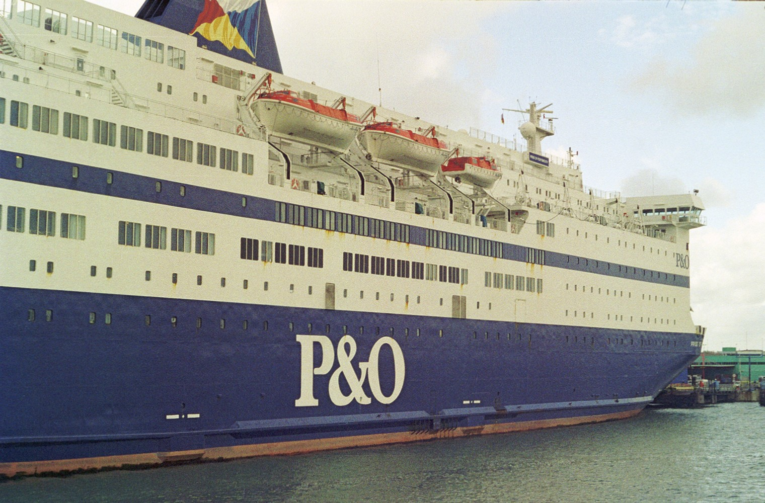 Portsmouth - UK, April 2000.